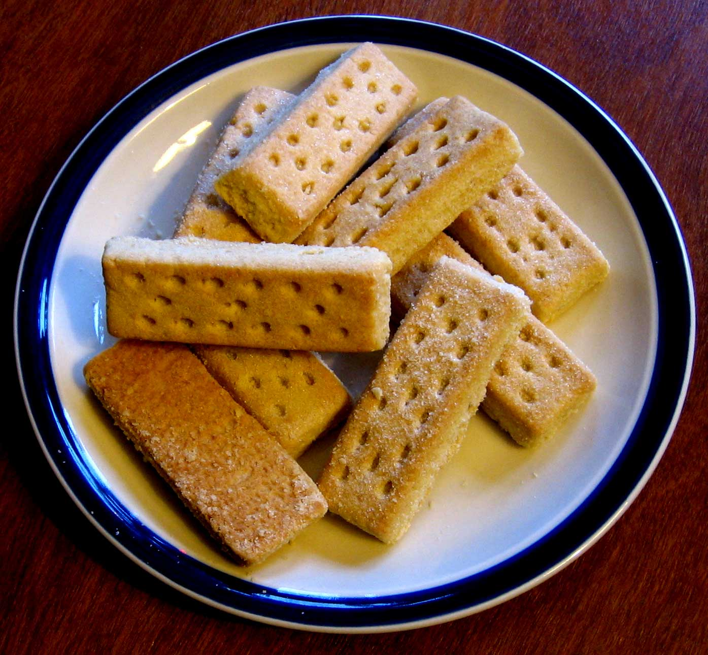 Scottish shortbread fingers.